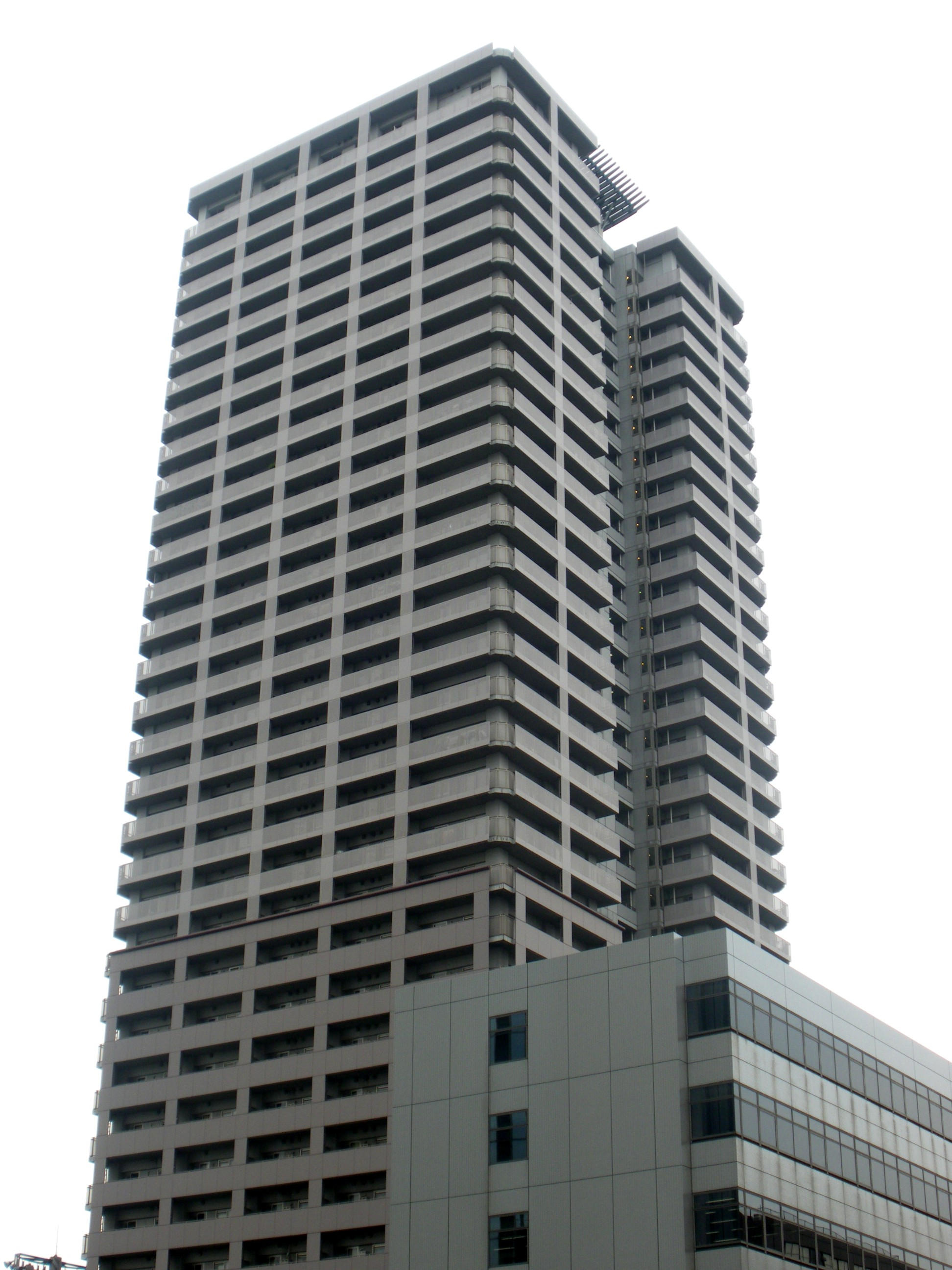 A photo of Tennouzu View Tower.Higashishinagawa,Shinagawa-ku,Tokyo,Japan.